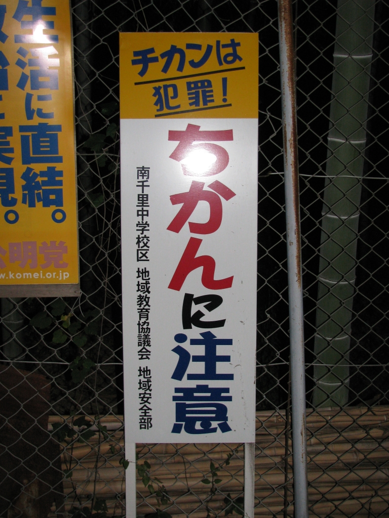 A sign in Suita city, Osaka prefecture, Japan, warns Beware of Perverts